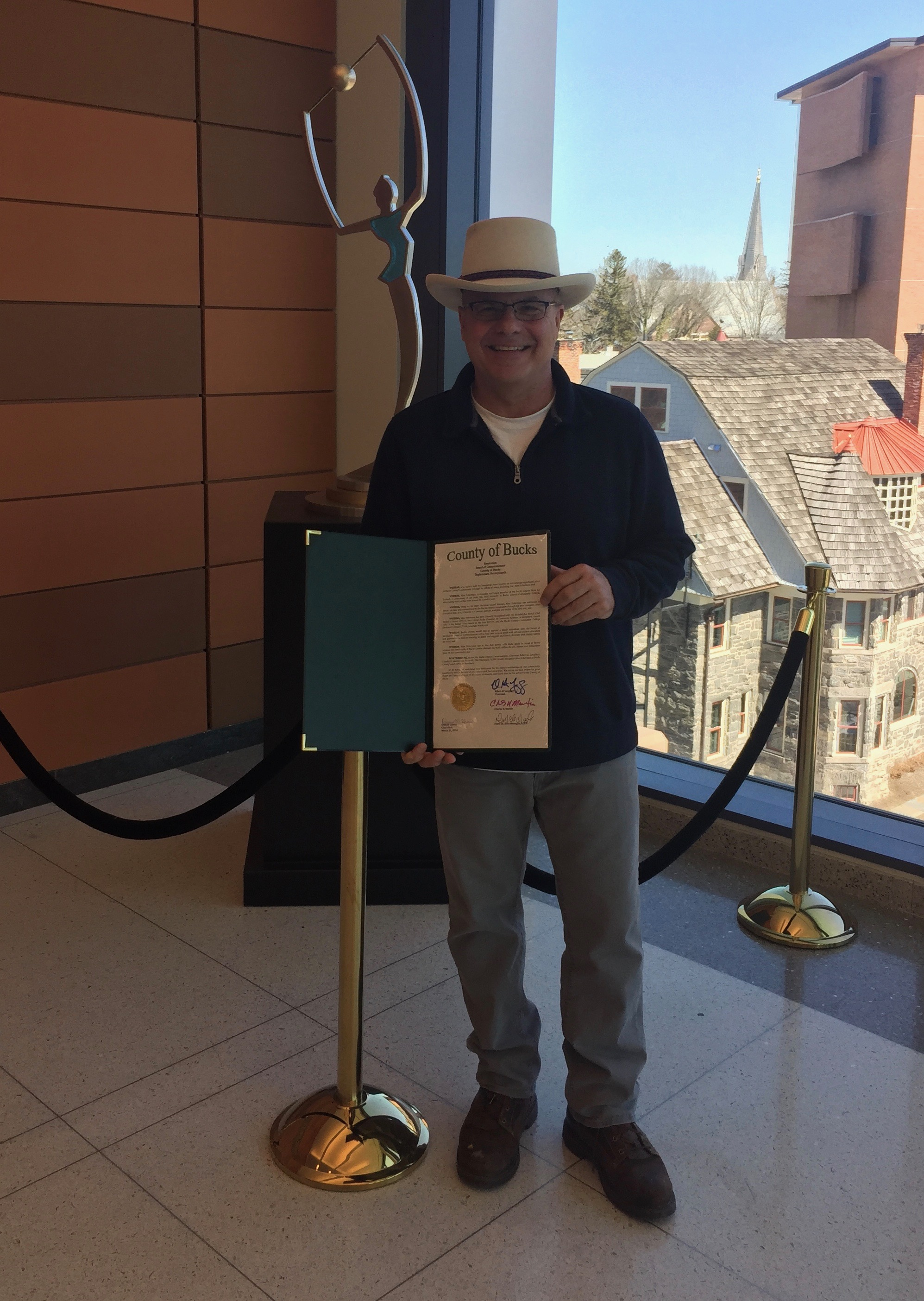 Alan Fetterman Artist In Residence Proclamation